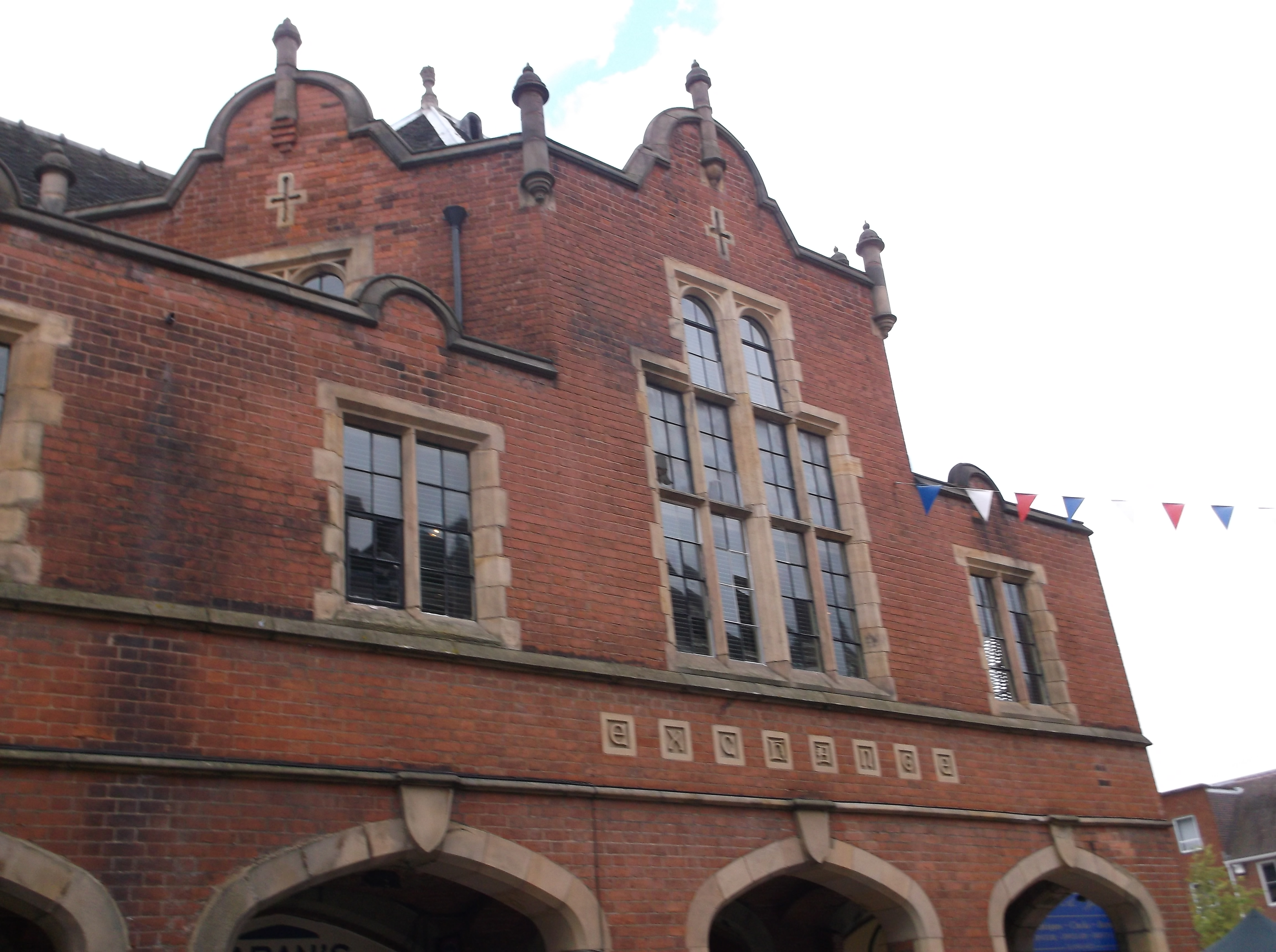 Corn Exchange, Conduit Street, Lichfield, Staffordshire, a grade II listed building